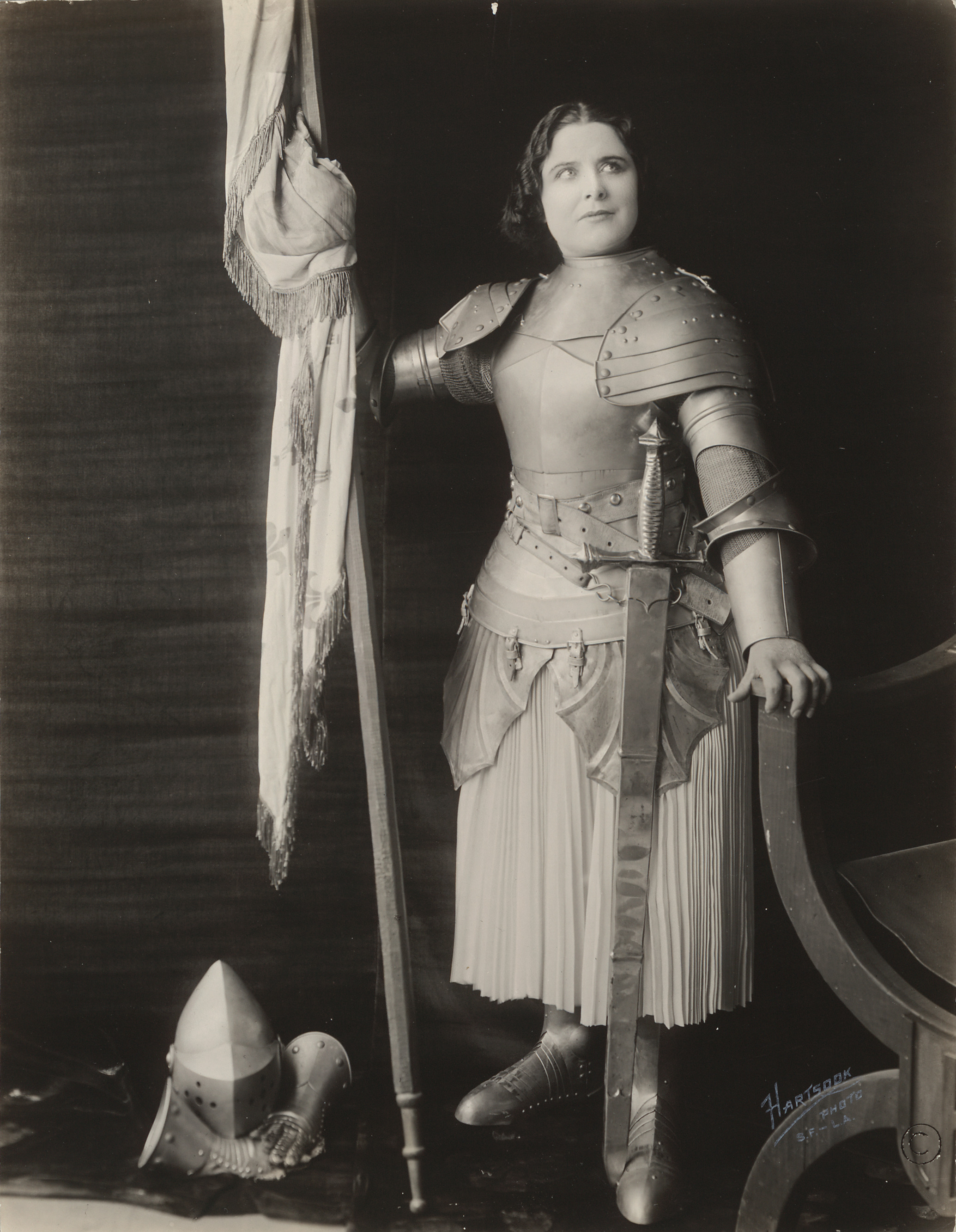 Geraldine Farrar, dressed in costume as Joan of Arc, holding a flag.